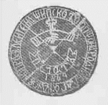 Bulgarian church seal in Shtip